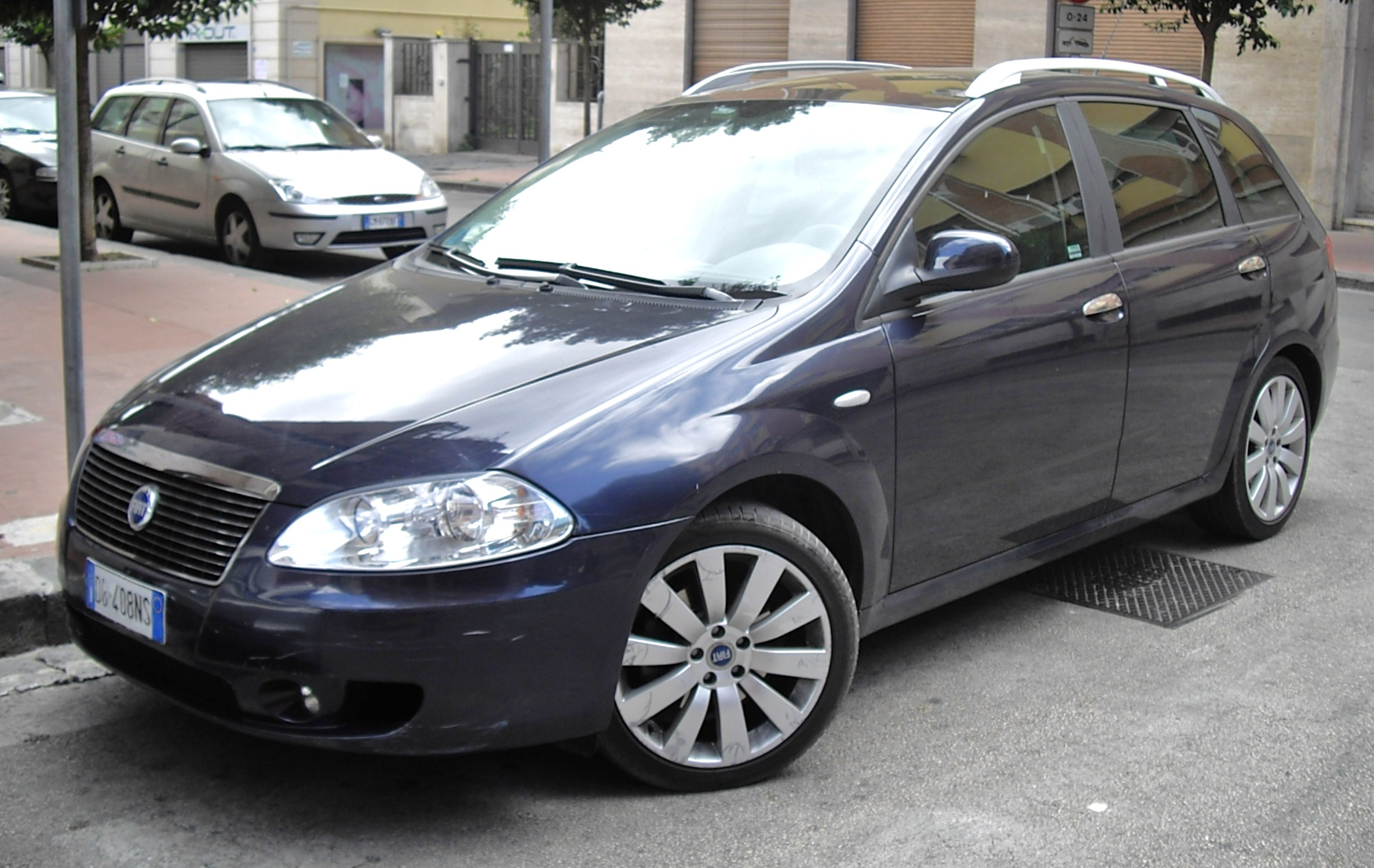 Fiat Croma 1.9 Multijet 150HP